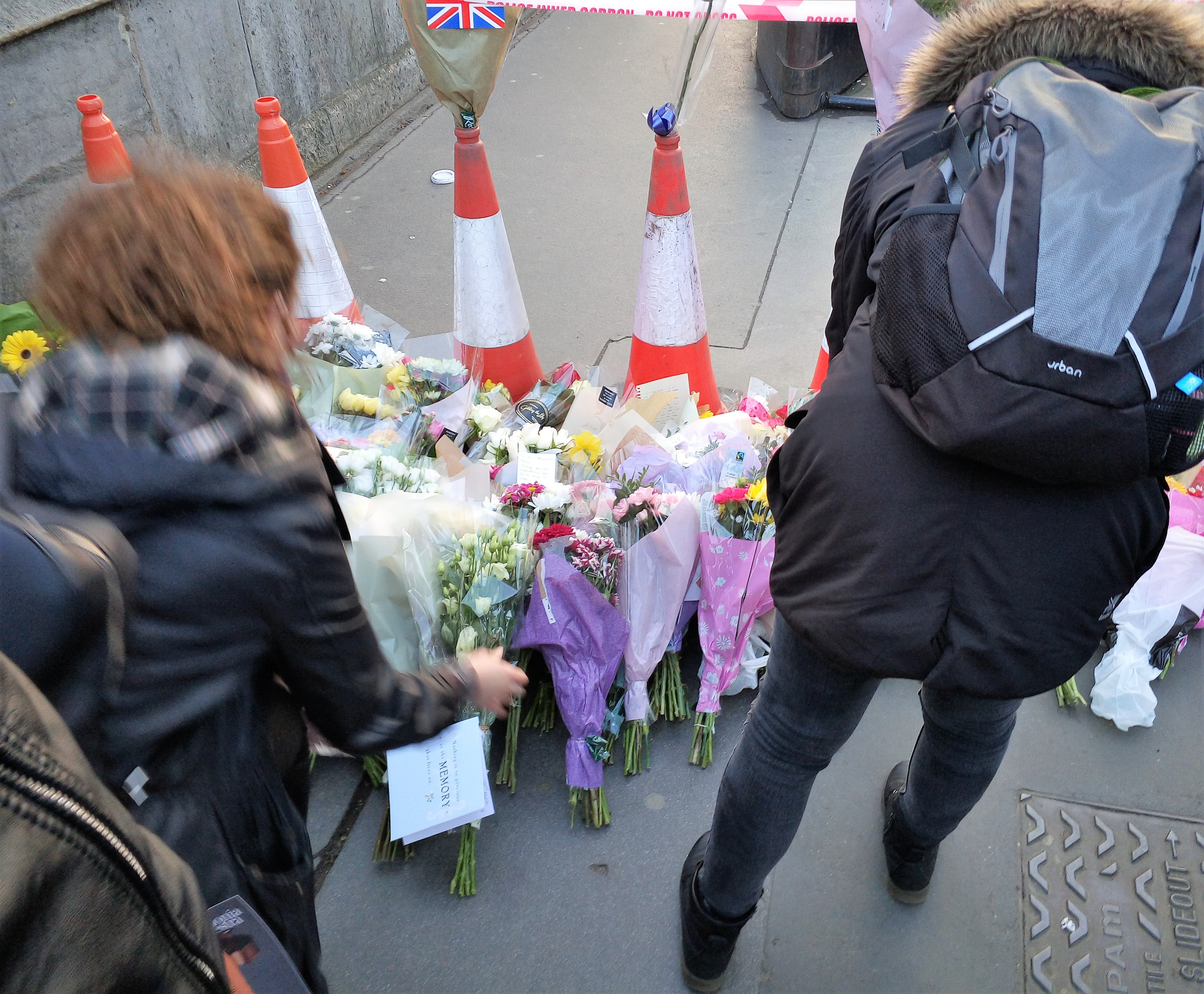 Anonymous girl putting flowers next to Westminster Palace, London, the day after the 2017 Westminster attack.